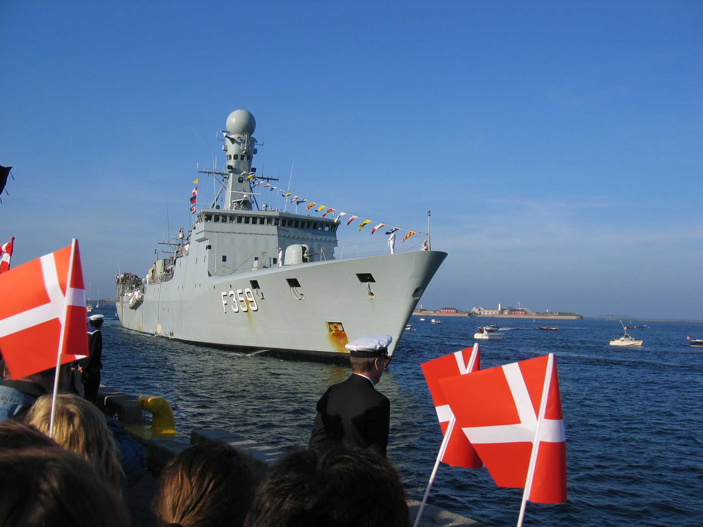 Galathea 3 getting ready to come to pier.